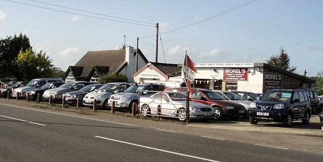 Morel's used cars Photographed from the adjacent OS grid square - which is on the other side of the road!